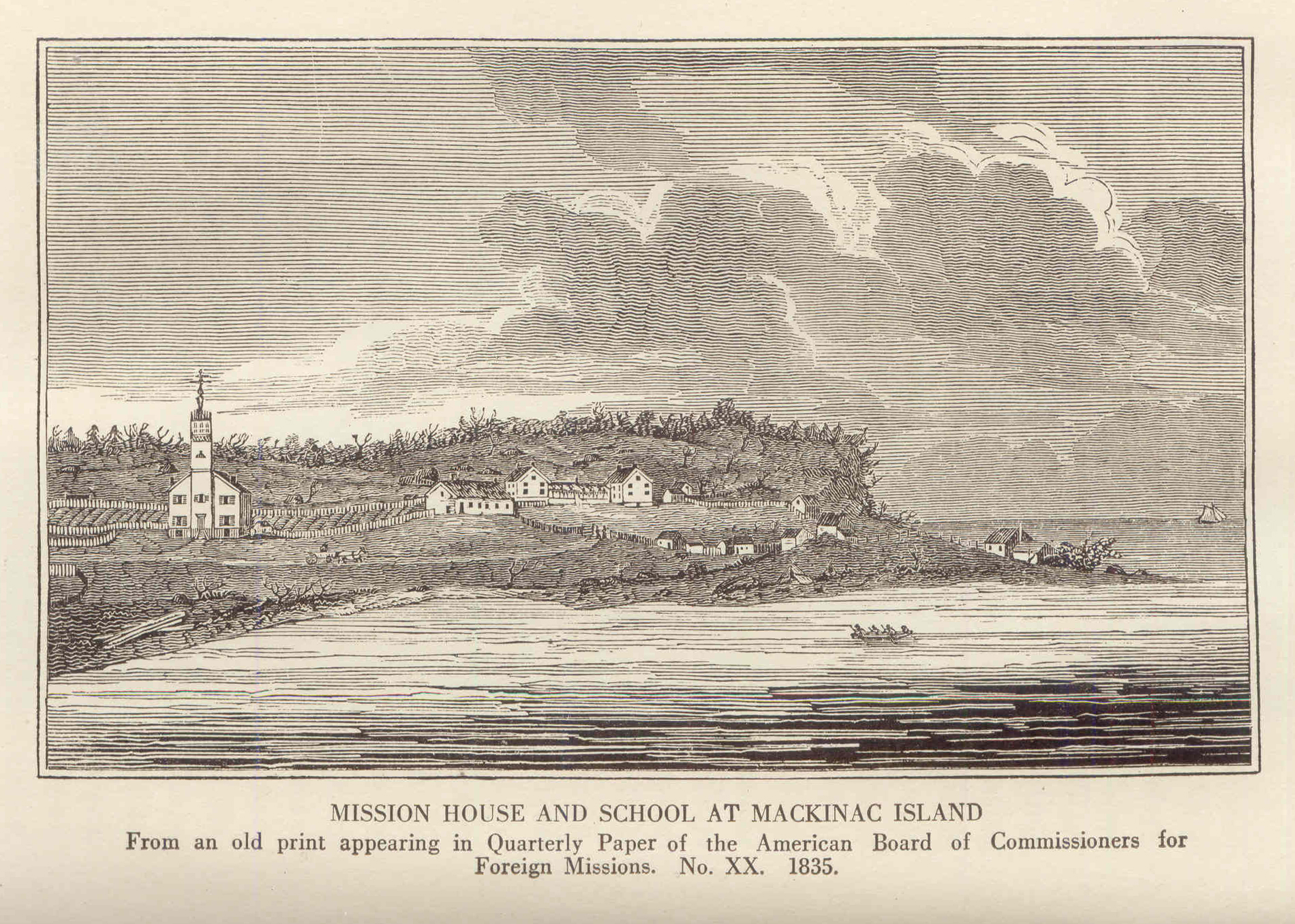 Pen and Ink Hatching-style drawing of Mission Point in 1835. It was published by Edwin O. Wood. 1918. Historic Mackinac, Volume 2 (of 2), facing-page 345. The Macmillan Company: New York. Drawing title is "Mission House and School at Mackinac Island from an old print appearing in Quarterly Paper of the American Board of Commissioners for Foreign Missions. No. XX. 1835. It shows (L-R) St. Anne’s Church, 2-story Mission House, other small buildings, tepees along shoreline, and Robinson's Folly cliff in the background.